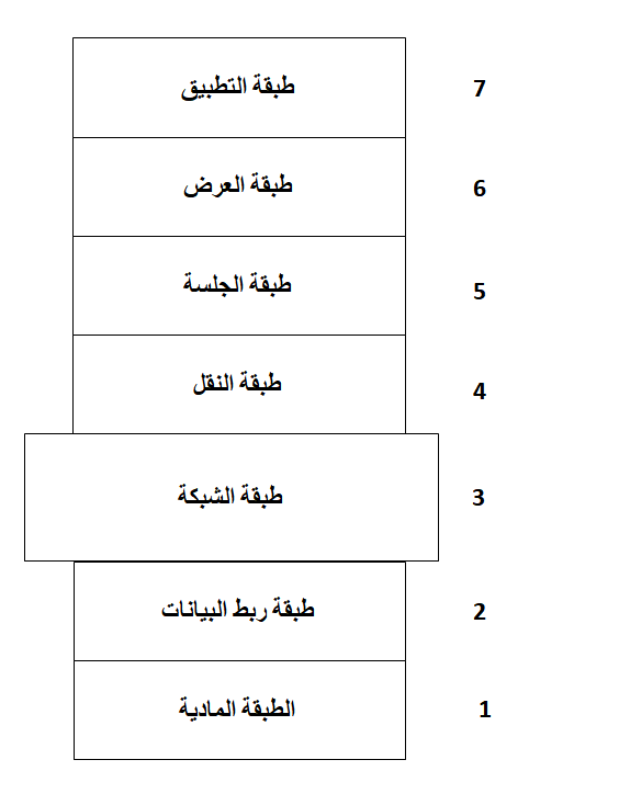 The Network Layer in the Open Interconnected System (OSI) model.